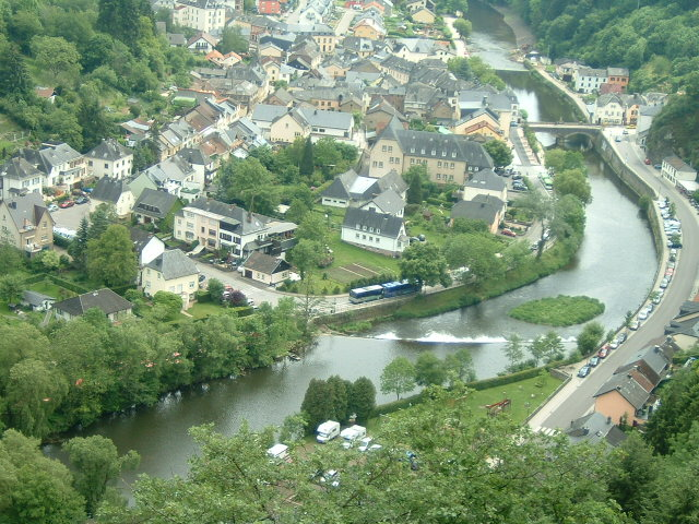 Our (river) in Vianden in Luxembourg, view from the chairlift